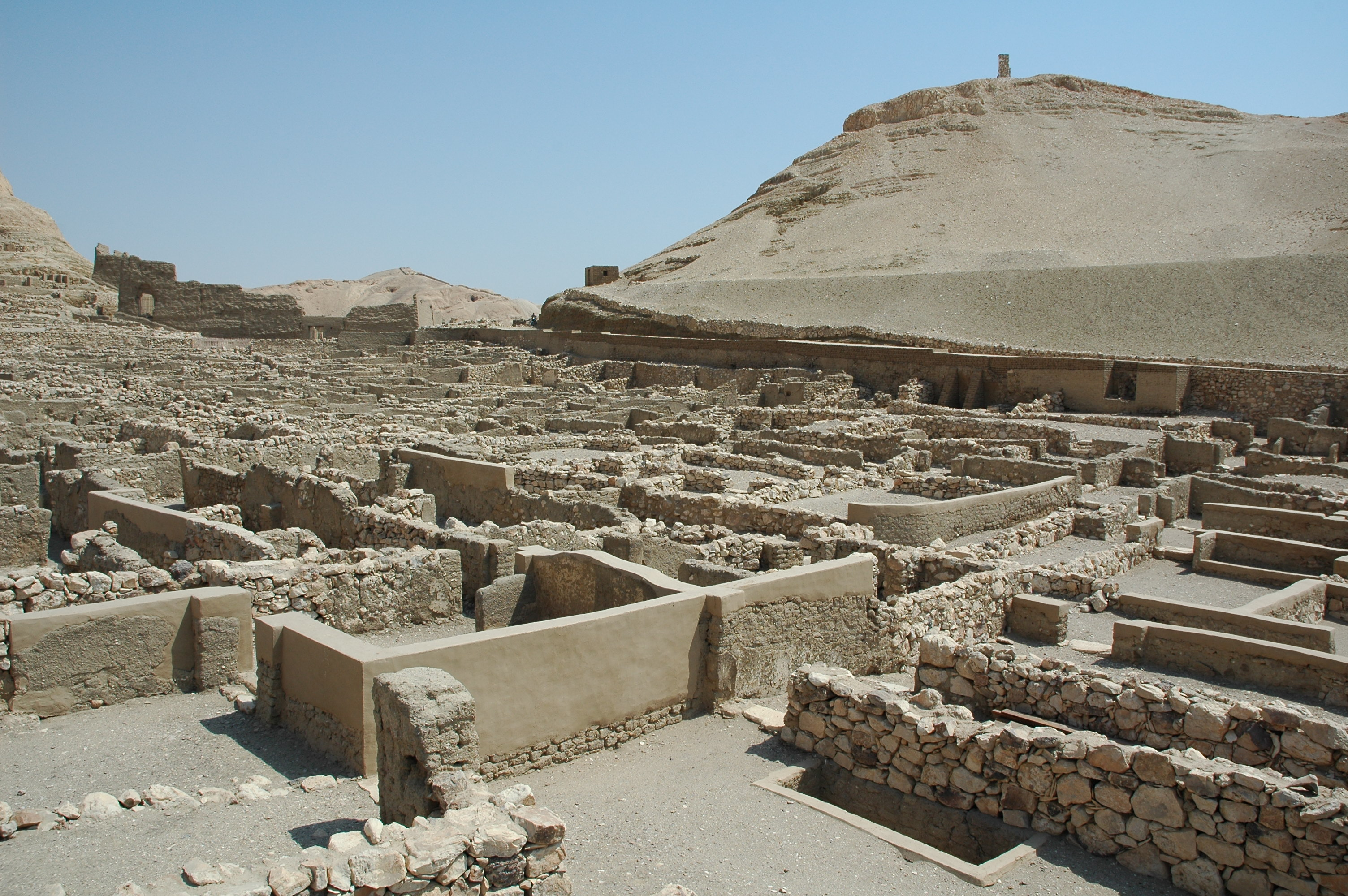 the ancient egyptian workmans village "deir el-medina", where the workers from the valley of the kings lived, closed to modern luxor